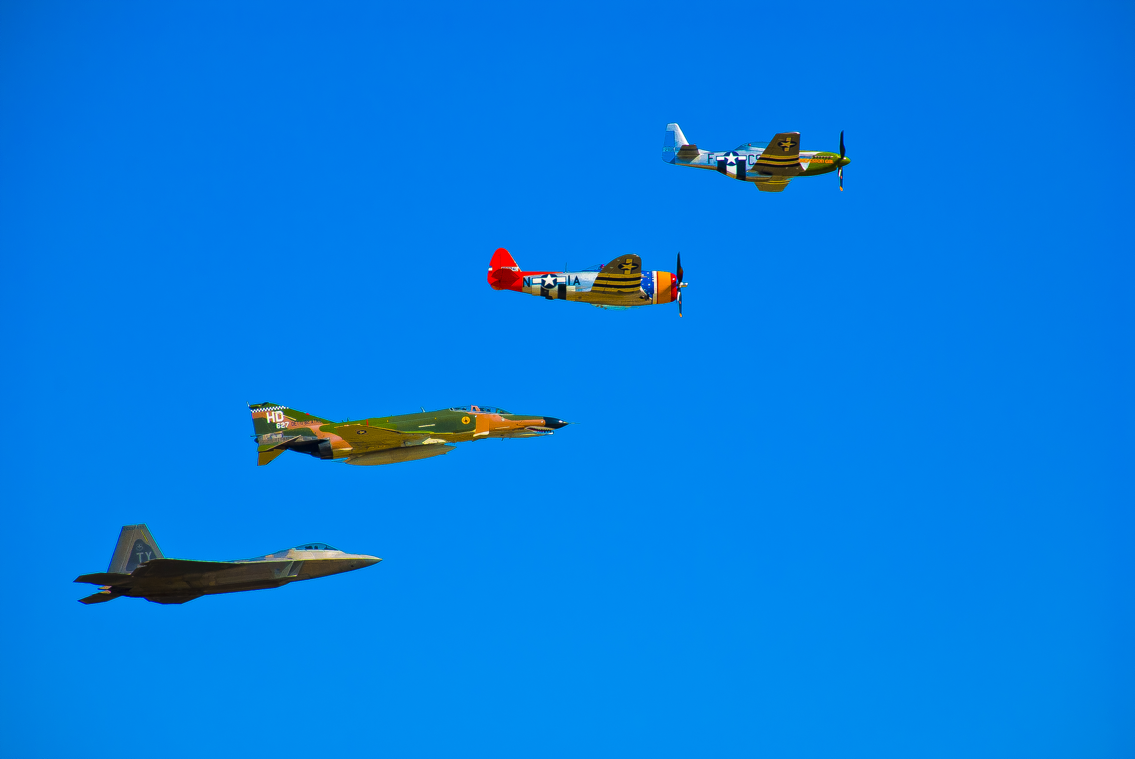 Heritage Flight performed at the Wings Over Houston air show. P-51D Mustang, P-47D Thunderbolt, QF-4E Phantom II, F-22A Raptor